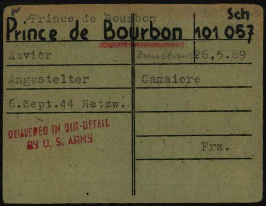 Prince Xavier of Bourbon-Parma's prisoner registry card at Dachau Nazi Concentration Camp. Date on the left is when he arrived from Natzweiler Concentration Camp. Red stamp means he was liberated by the U. S. Army from a Dachau sub-camp (out-detail)